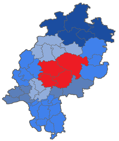 Map of the district court Giessen in Hesse